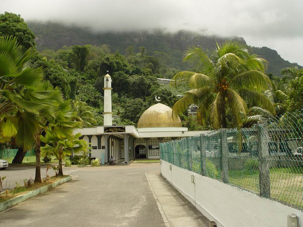 Mosque in the centre of Mahe